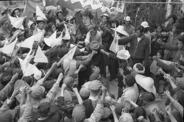 Samding Dorje Pamo during the Cultural Revolution